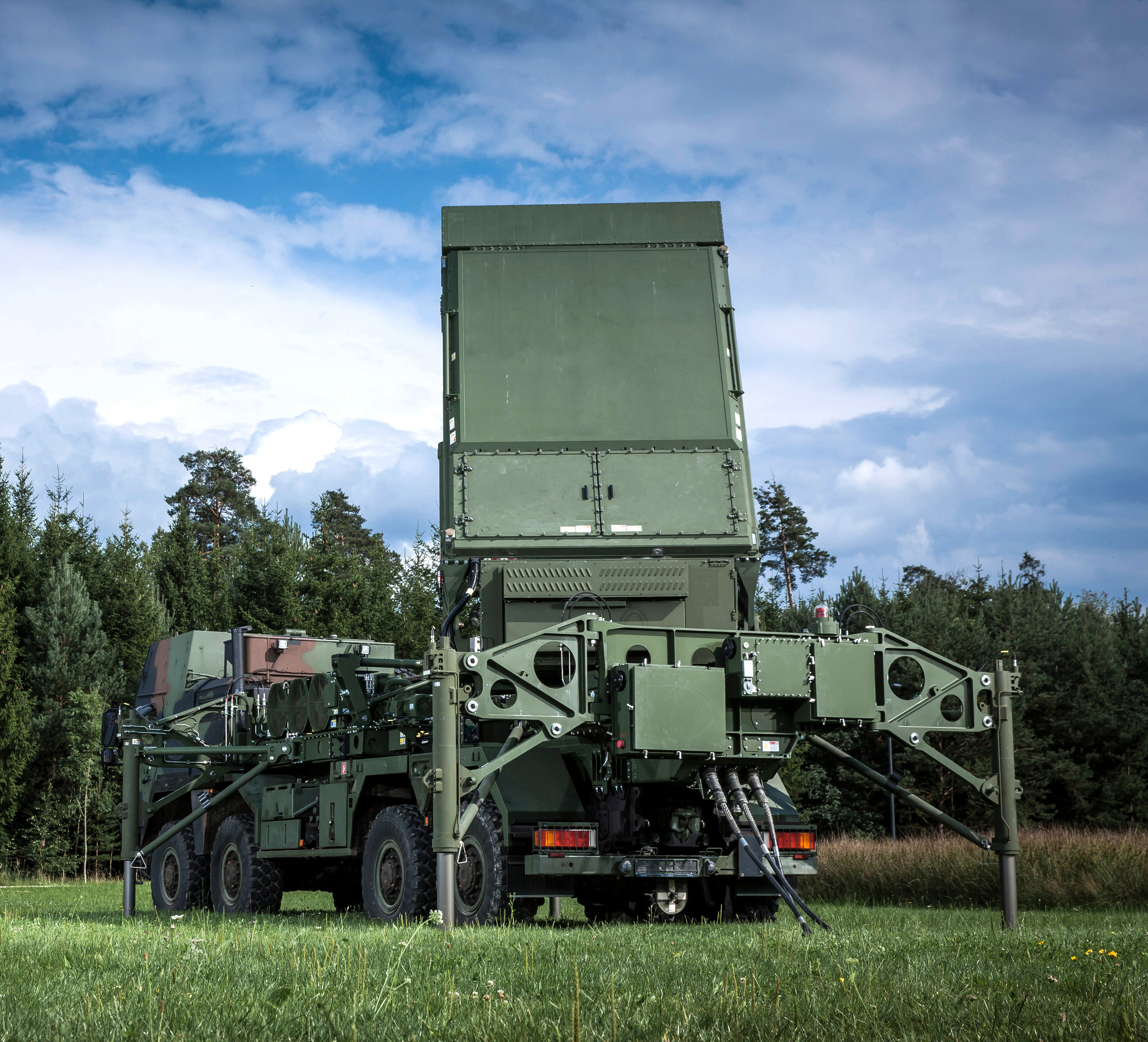 The MEADS Multifunction Fire Control Radar, shown in its German configuration, can detect and track advanced threats with 360-degree coverage and no blind spots. Unlike fielded radars, it is highly mobile and C-130 transportable.